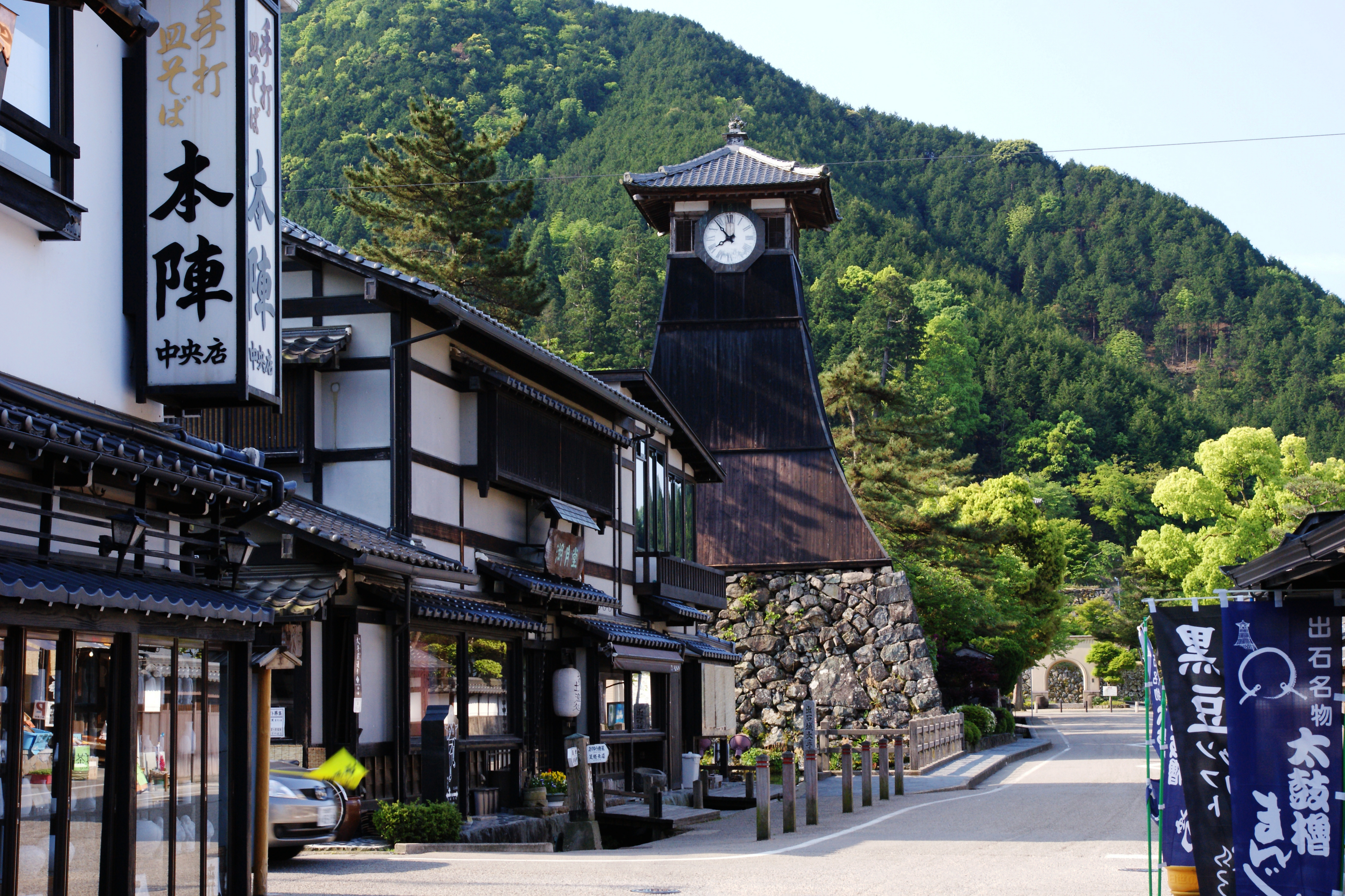 Shinkoro in Izushi, Toyooka, Hyogo prefecture, Japan